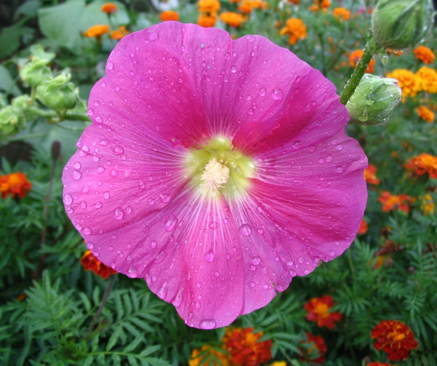 A hollyhock flower with water droplets. Location: Puri, Orissa, India.